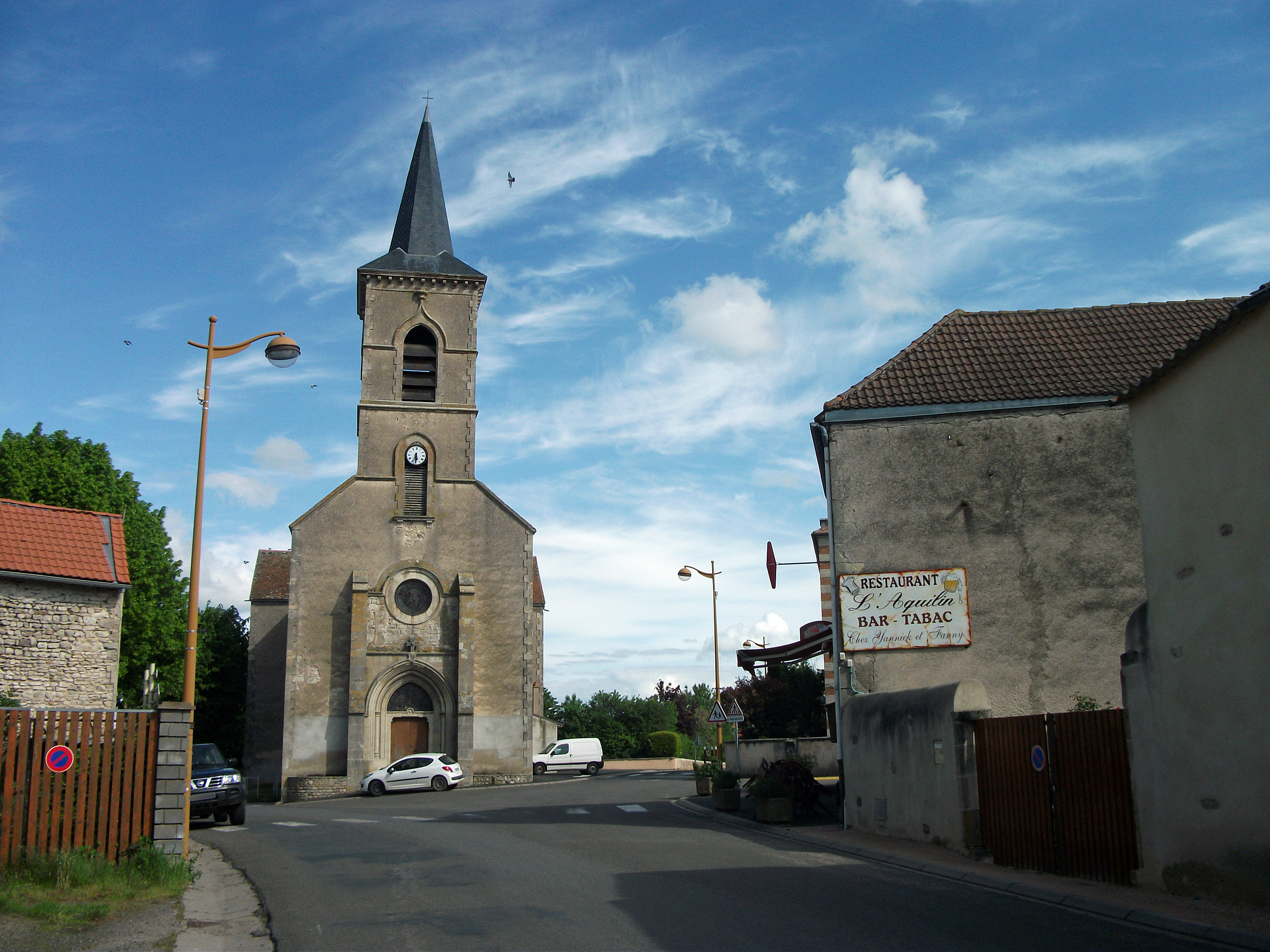 Departmental road 12 and church of Saint-Agoulin, Puy-de-Dôme, Auvergne-Rhône-Alpes, France [10865]